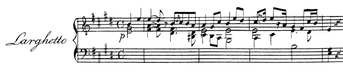 Franz Danzi's Horn Sonata No. 2 in E minor, Op. 44. — First bars of the 2nd mvt. (piano).